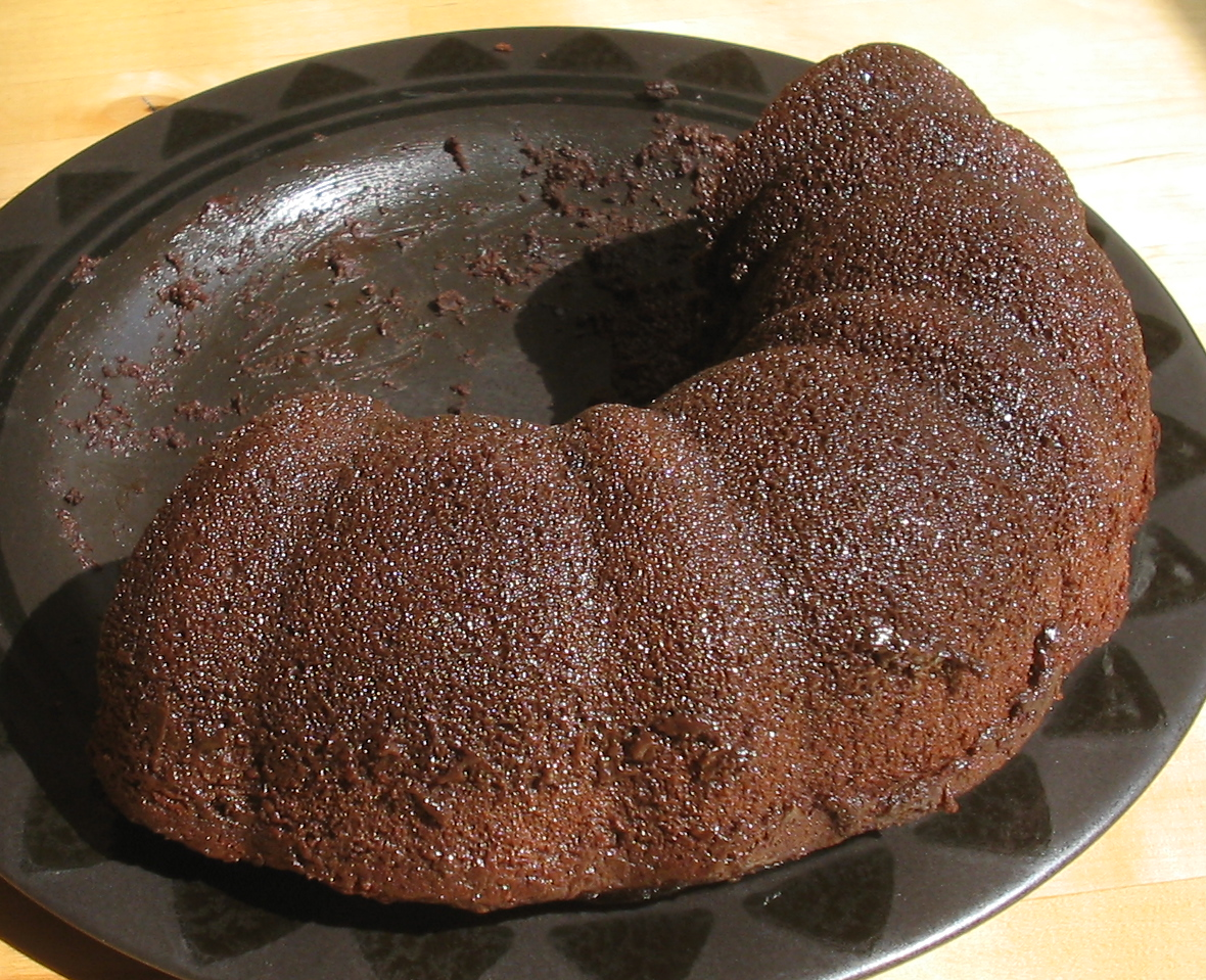 Half of a chocolate Bundt cake. The cake is the remains of this cake. David Benbennick took this photo on Wednesday, May 11, 2005 at 2:10 PM (13:10 UTC). See Image:Chocolate Bundt cake.jpg for recipe information.